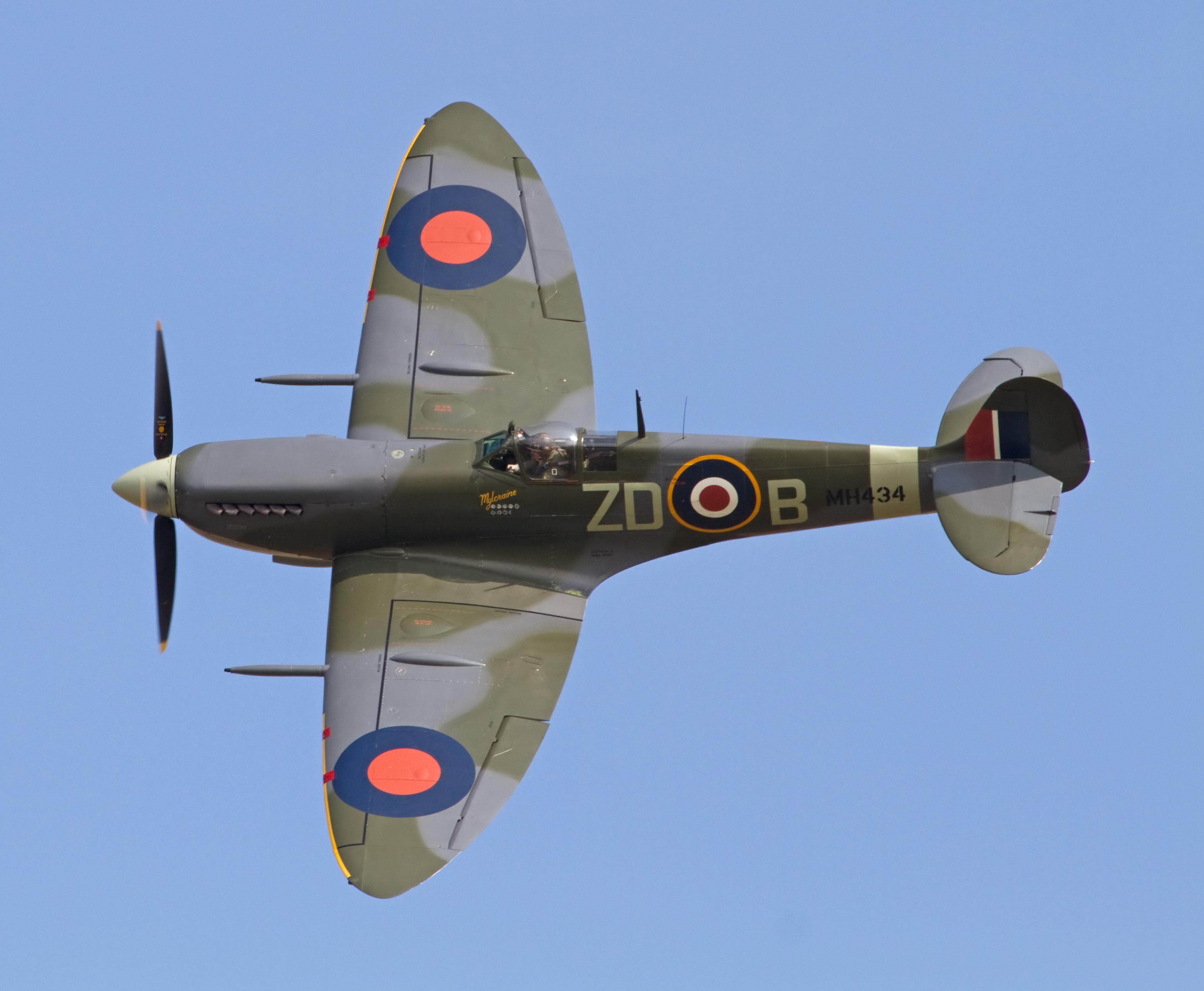 Spitfire LF IXC MH434 3a